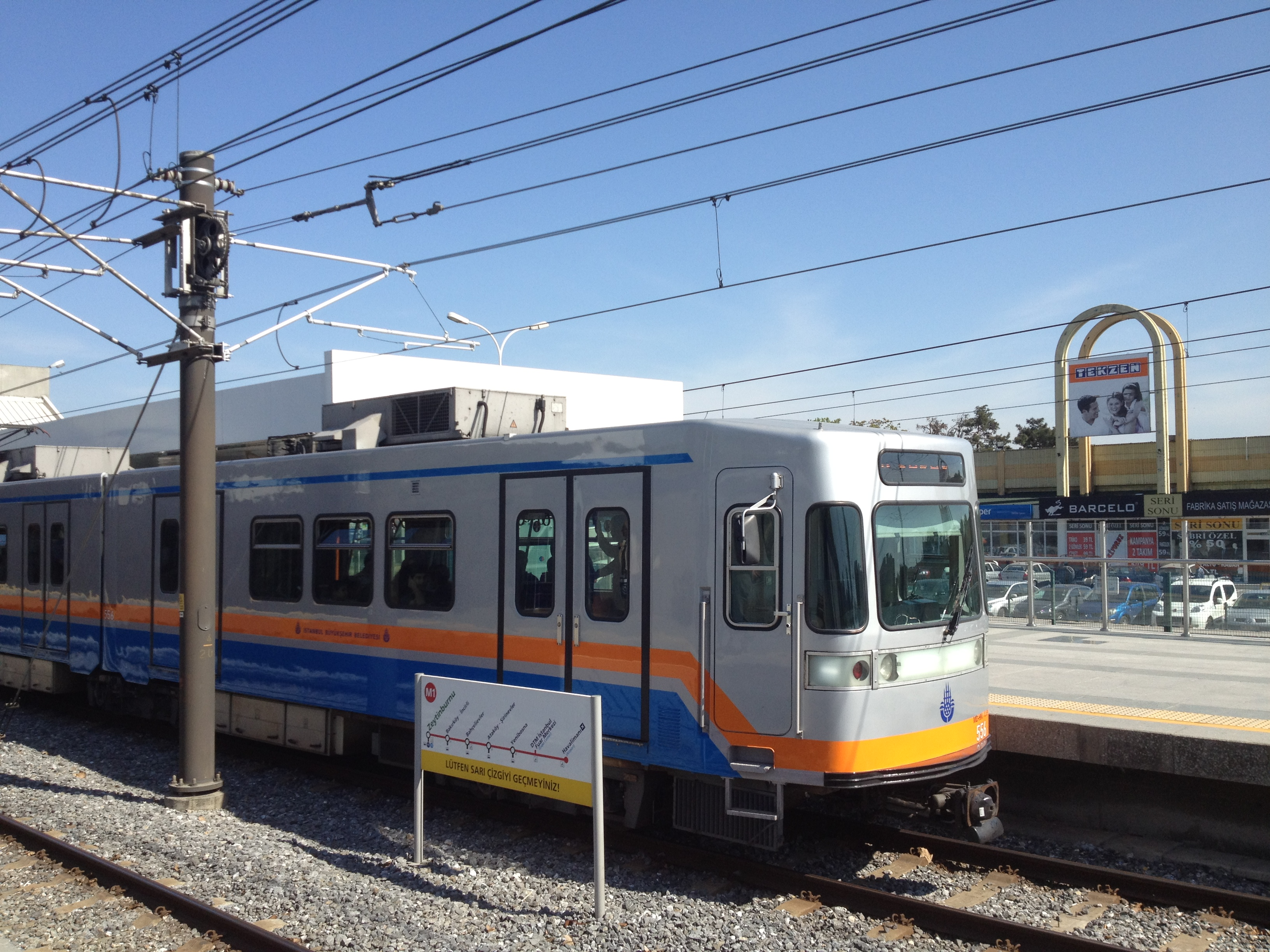 Istanbul light rail (line M1)